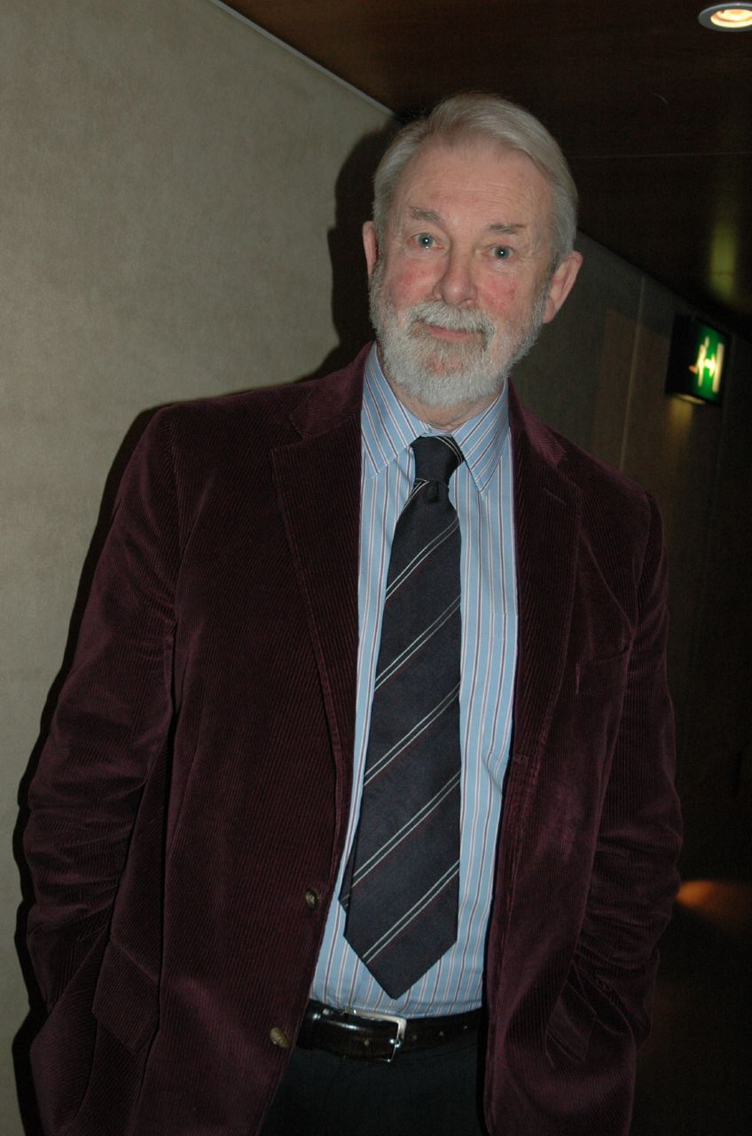 Fashion historian and journalist Colin McDowell